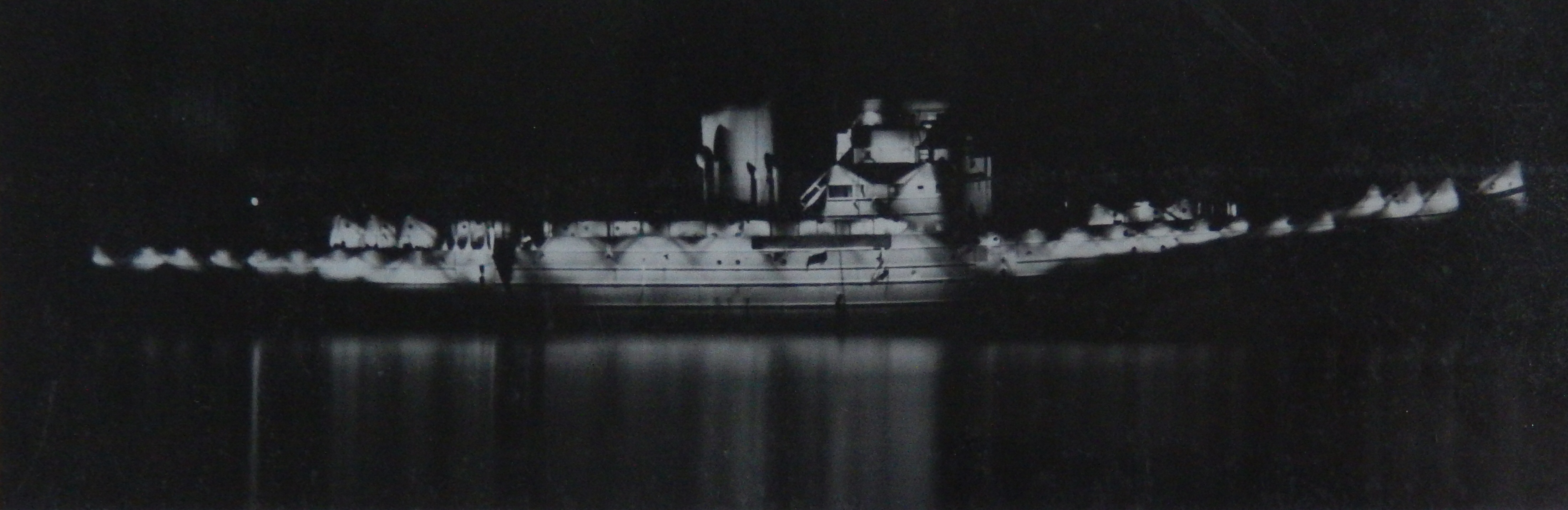 HMS Largs by night with incomplete Diffused lighting camouflage, winter of 1941/42, preparing for trials in the Clyde approaches